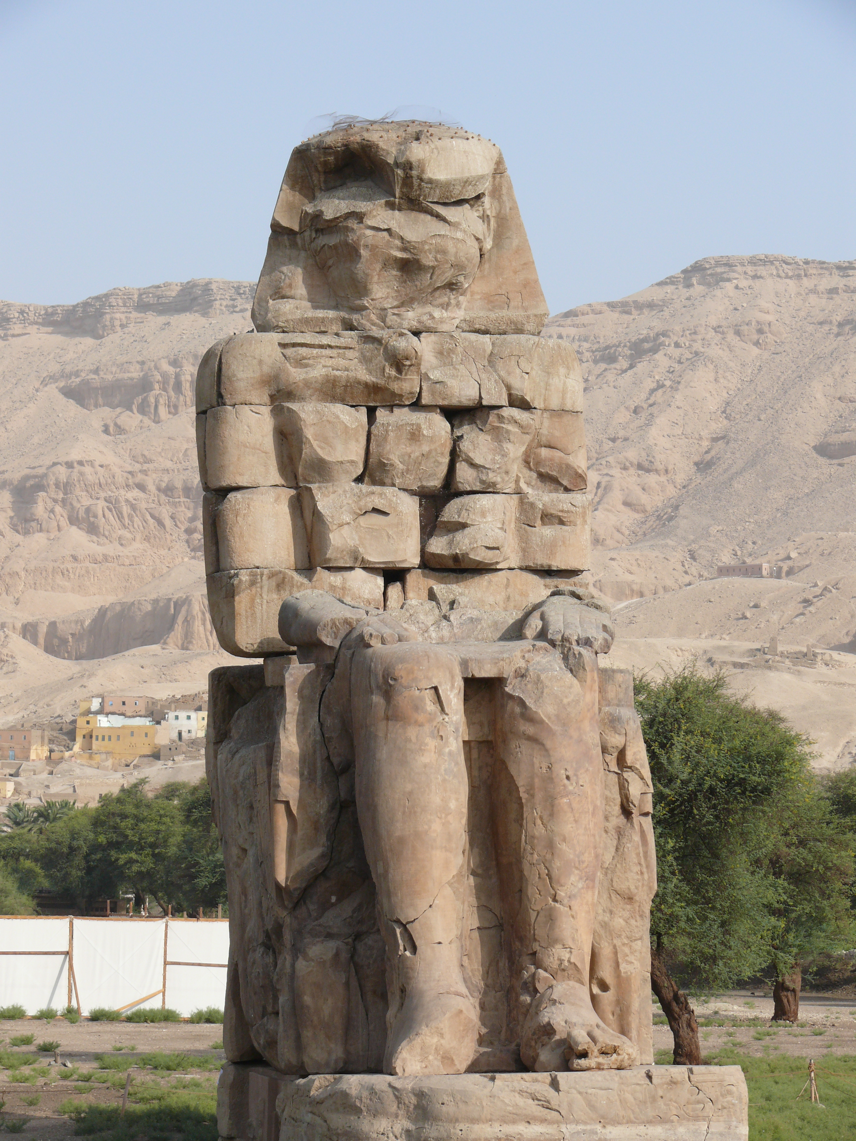 The eastern figure of the Colossi of Memnon, two massive stone statues of Pharaoh Amenhotep III, across the Nile from Luxor.